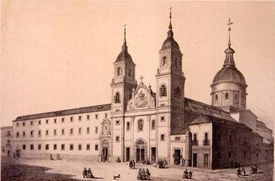 Noviciado de la Compañía de Jesús of Madrid (around 1860 - 64).